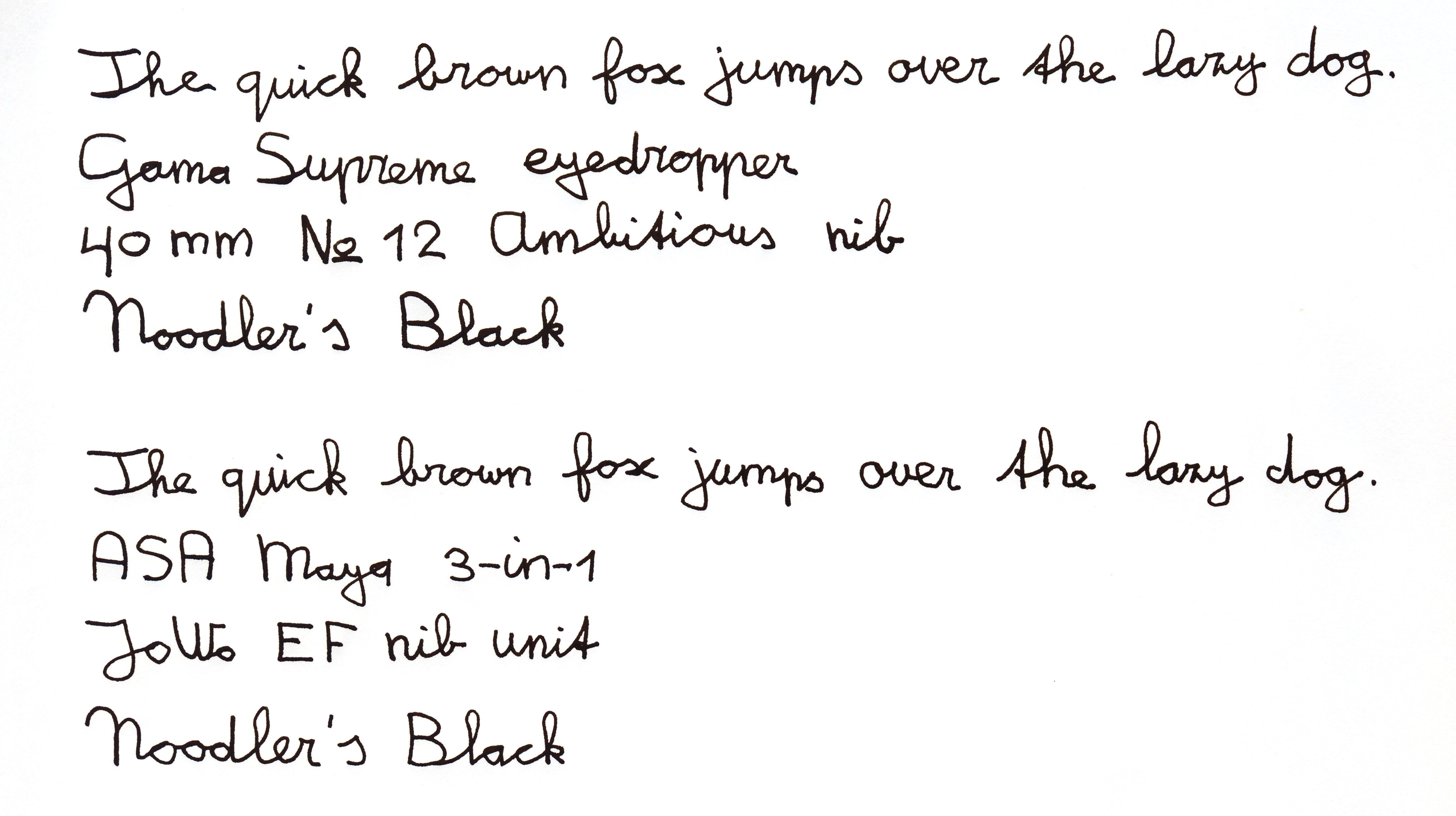 Noodler's Black fountain pen ink writing samples. One of the main selling points of Noodler's Black is that it is 'bulletproof', which means that it is archival in quality – resisting fading and being friendly to paper. The ink uses a cellulose-reactive dye that chemically bonds with the paper's cellulose, and therefore becomes resistant to removal by washing, solvents, erasing, bleaching and other conventional means. A disadvantage of this cellulose-reactive dye ink type is that, if spilled, it will form irremovable stains on clothing made from cotton or other fibers that also contain cellulose. Only the portion of the ink that binds to the paper fibers resists removal. The portion that remains on top of the paper can be washed away.